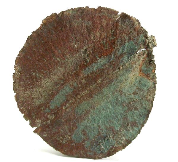 Copper, Cuprite Locality: Itauz Mine, Zhezqazghan Oblysy (Dzezkazgan Oblast'; Dzhezkazgan Oblast'; Djezkazgan Oblast'; Jezkazgan Oblast'), Kazakhstan (Locality at ) Size: 6.4 x 6.4 x 0.3 cm. A very strange, natural copper disk from the Itauz Mine of Kazakhstan. I have never seen one like it from this locale. The disk has a coating of red cuprite and also has a nice patina. Unusual material from this well-known locale.